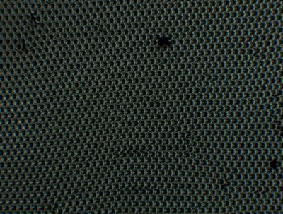 I took this picture of a bubble raft as part of a laboratory class at MIT.